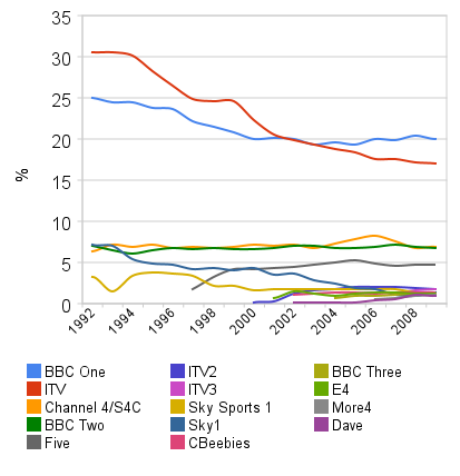 Line chart of viewing share of UK channels above 1% from 1992 to 2009 (replacement of 1999 - 2009 version)